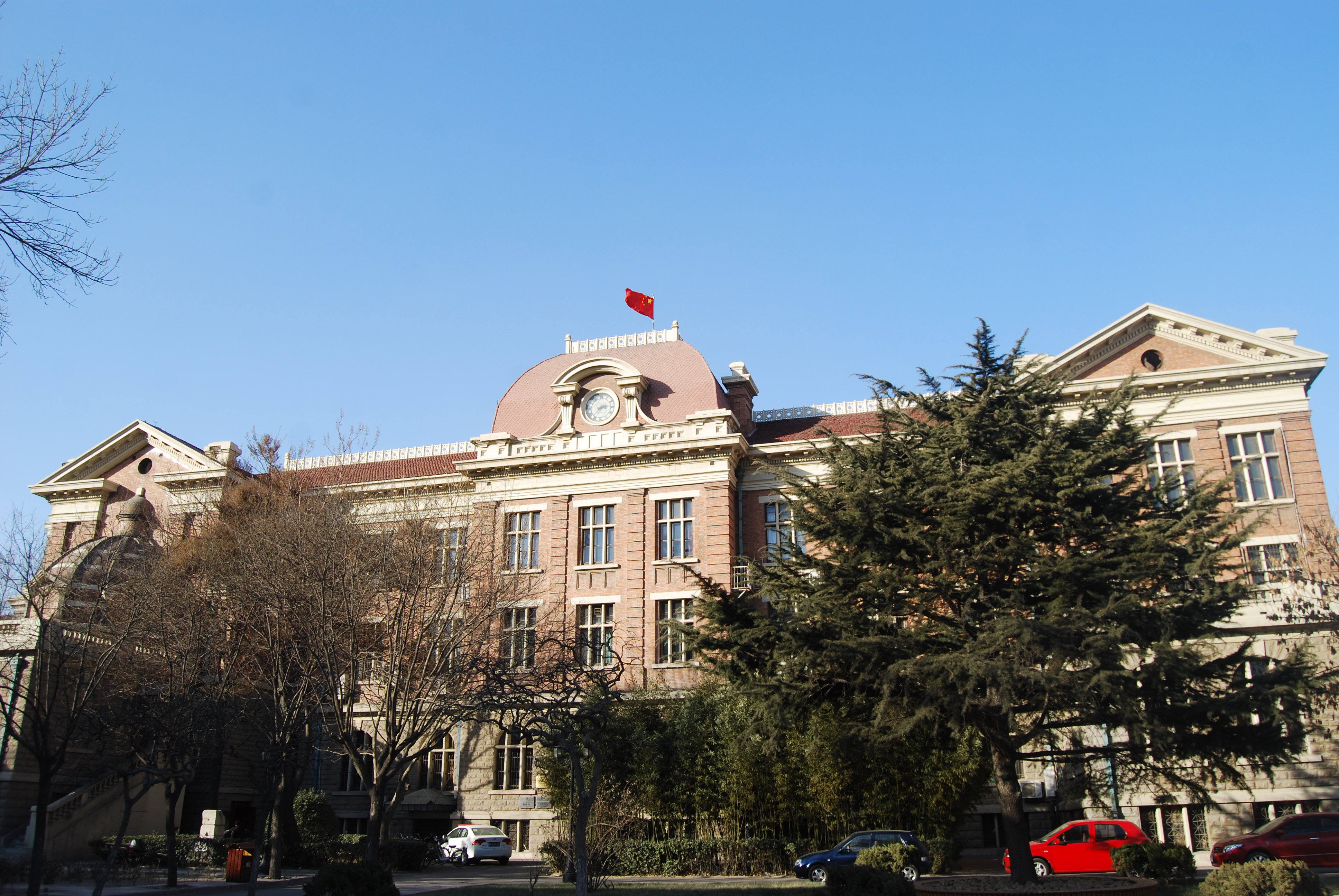 Former Institut des Hautes Etudes et Commerciales in Machang Dao No. 117–119, Heping District, Tianjin